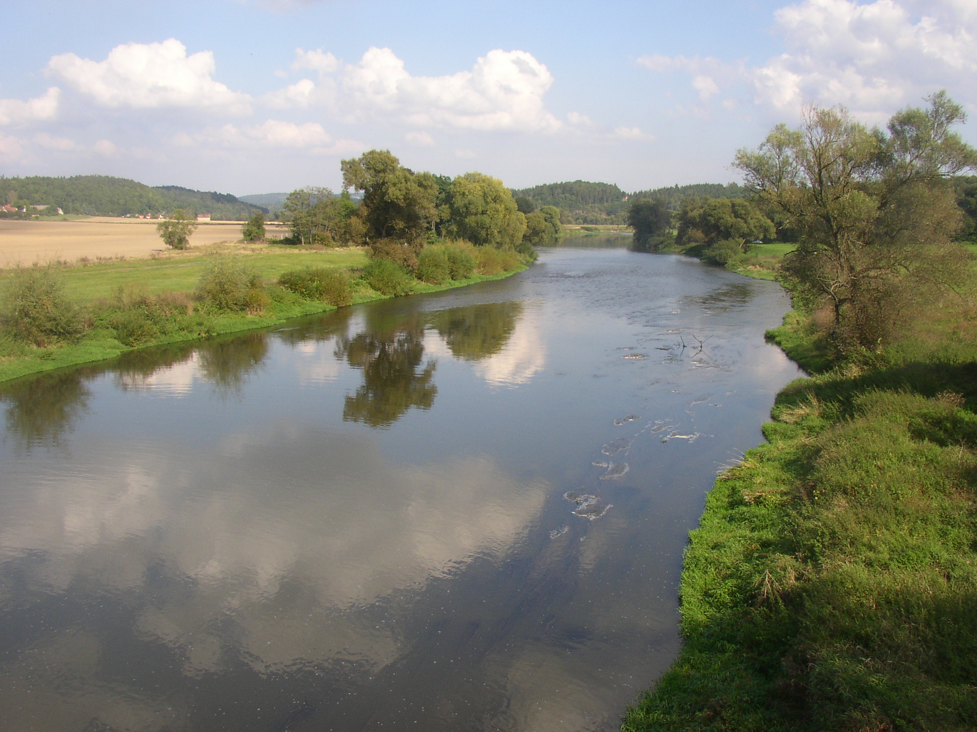 Berounka River as seen from Dolany Bridge near village of Dolany, Plzeň-North District, Czech Republic.